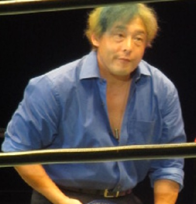 Japanese professional wrestler, TAJIRI. July 17 2017, BJW Ryogoku Sumo Arena.